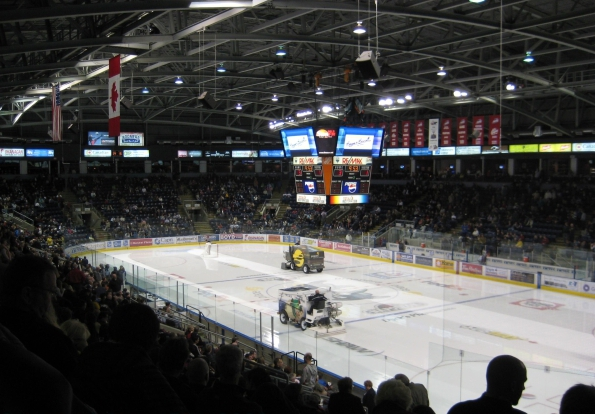 Interior of prospera place with new four sided video board